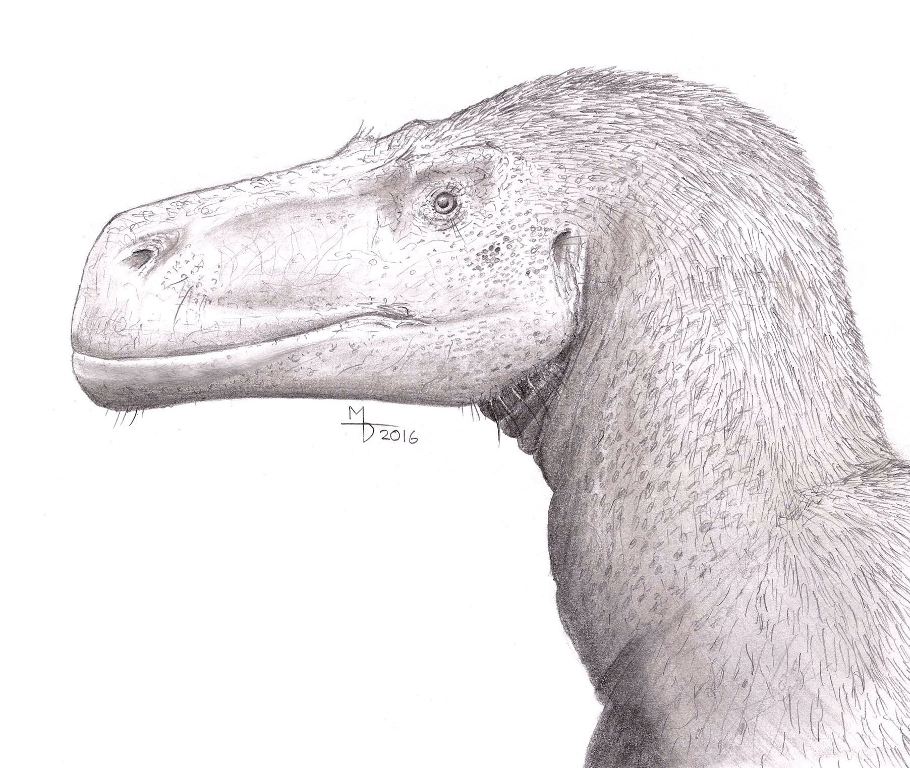 The head of megalosauroid Wiehenvenator albati in profile.